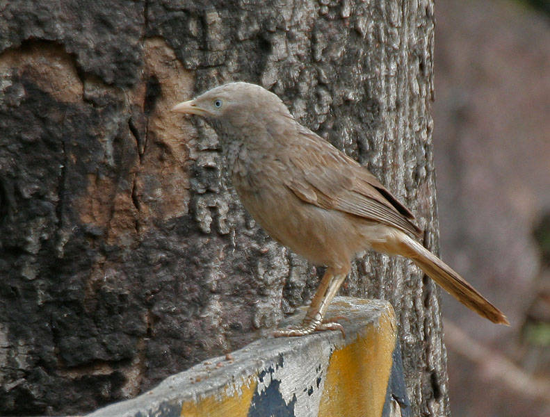 Yellow-billed Babbler Turdoides affinis in Hyderabad , India.